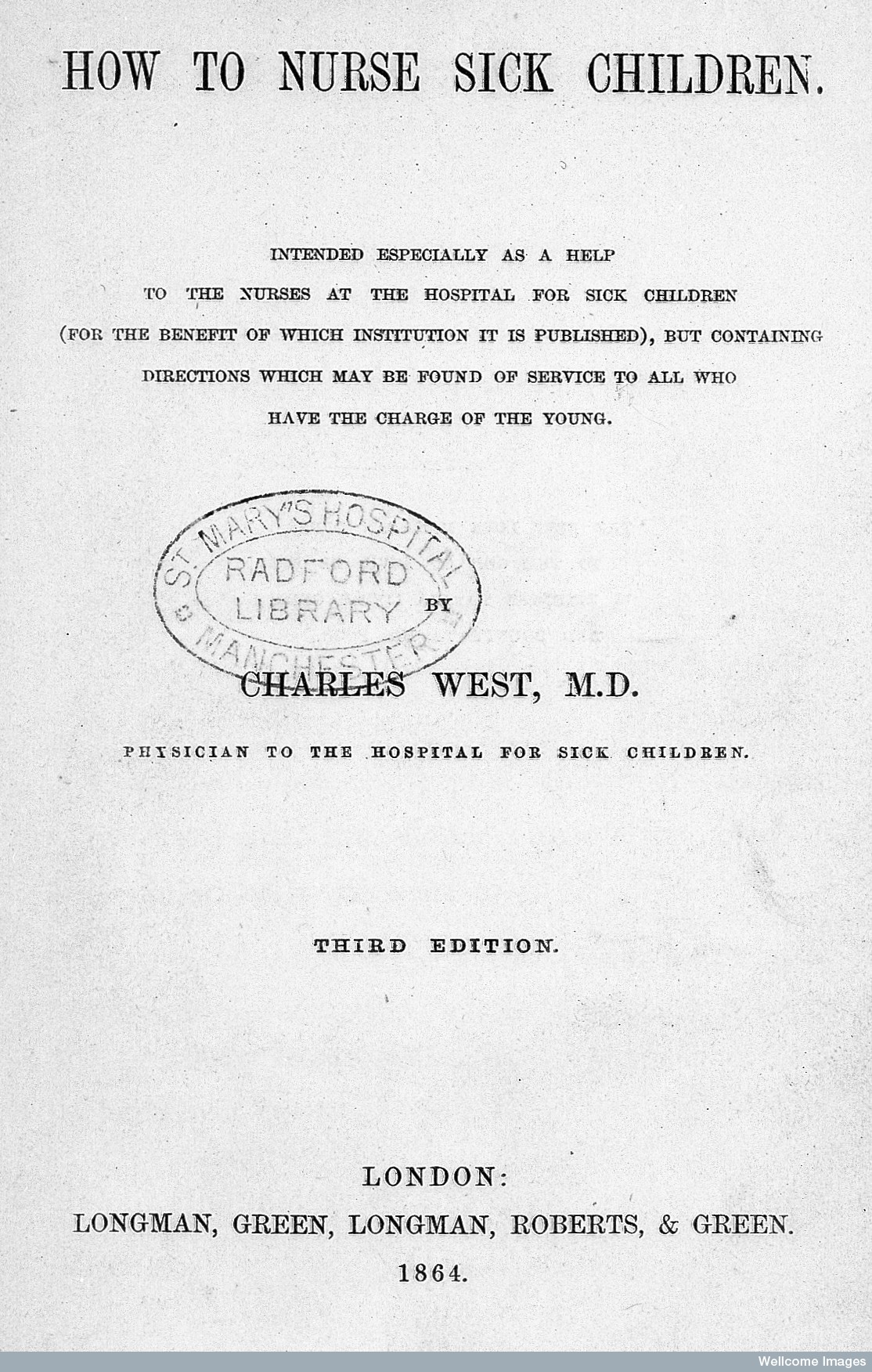 L0008371 C. West "How to nurse...", 1864; title page Credit: Wellcome Library, London. Wellcome Images - How to nurse sick children : intended especially as a help to the nurses at the Hospital for Sick Children, for the benefit of which institution it is published, but containing directions which may be found of service to all who have the charge of the young Charles West Published: 1864 Copyrighted work available under Creative Commons Attribution only licence CC BY 4.0